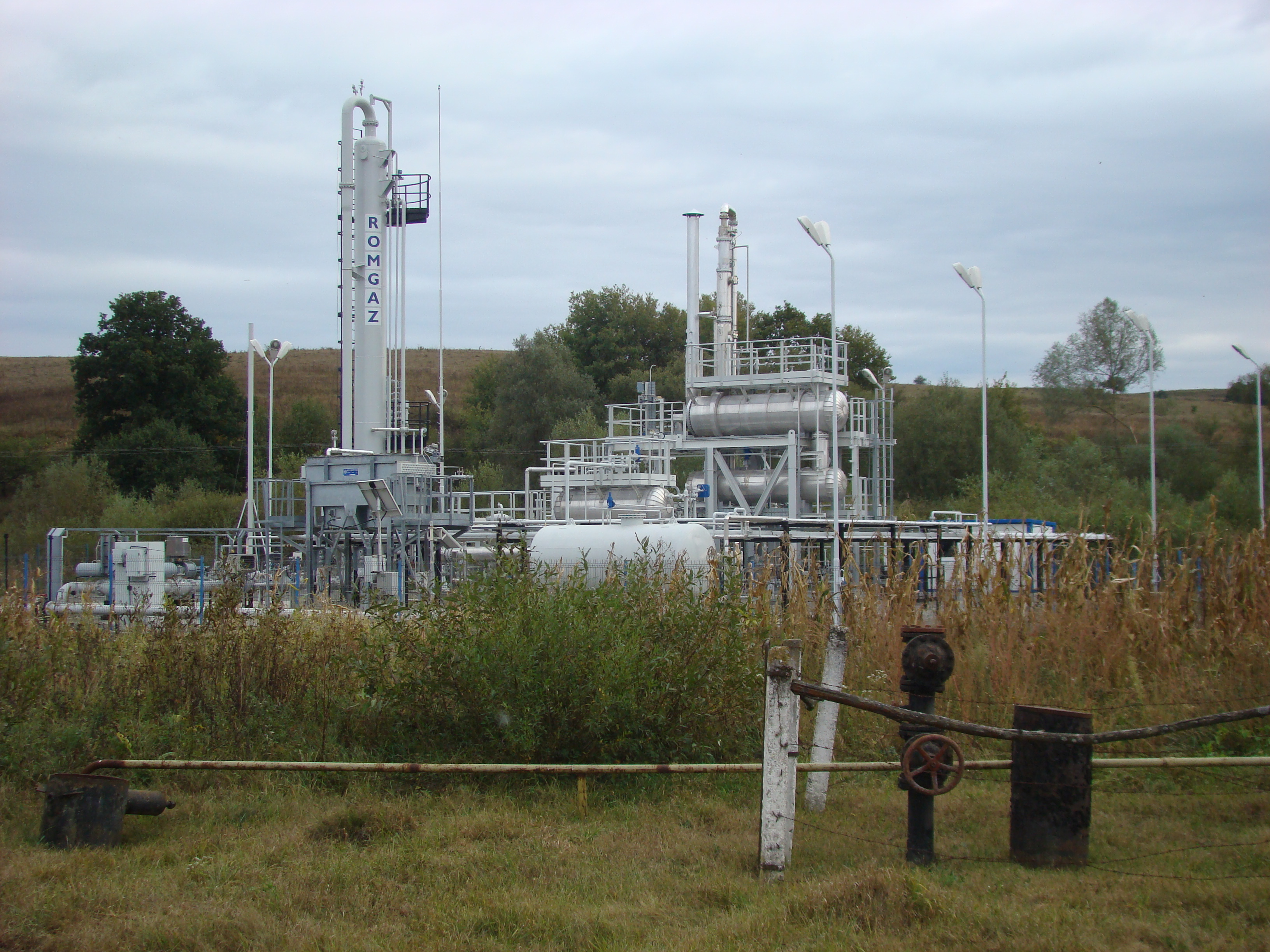 subsurface gas reservoir in Illenbav, Romania